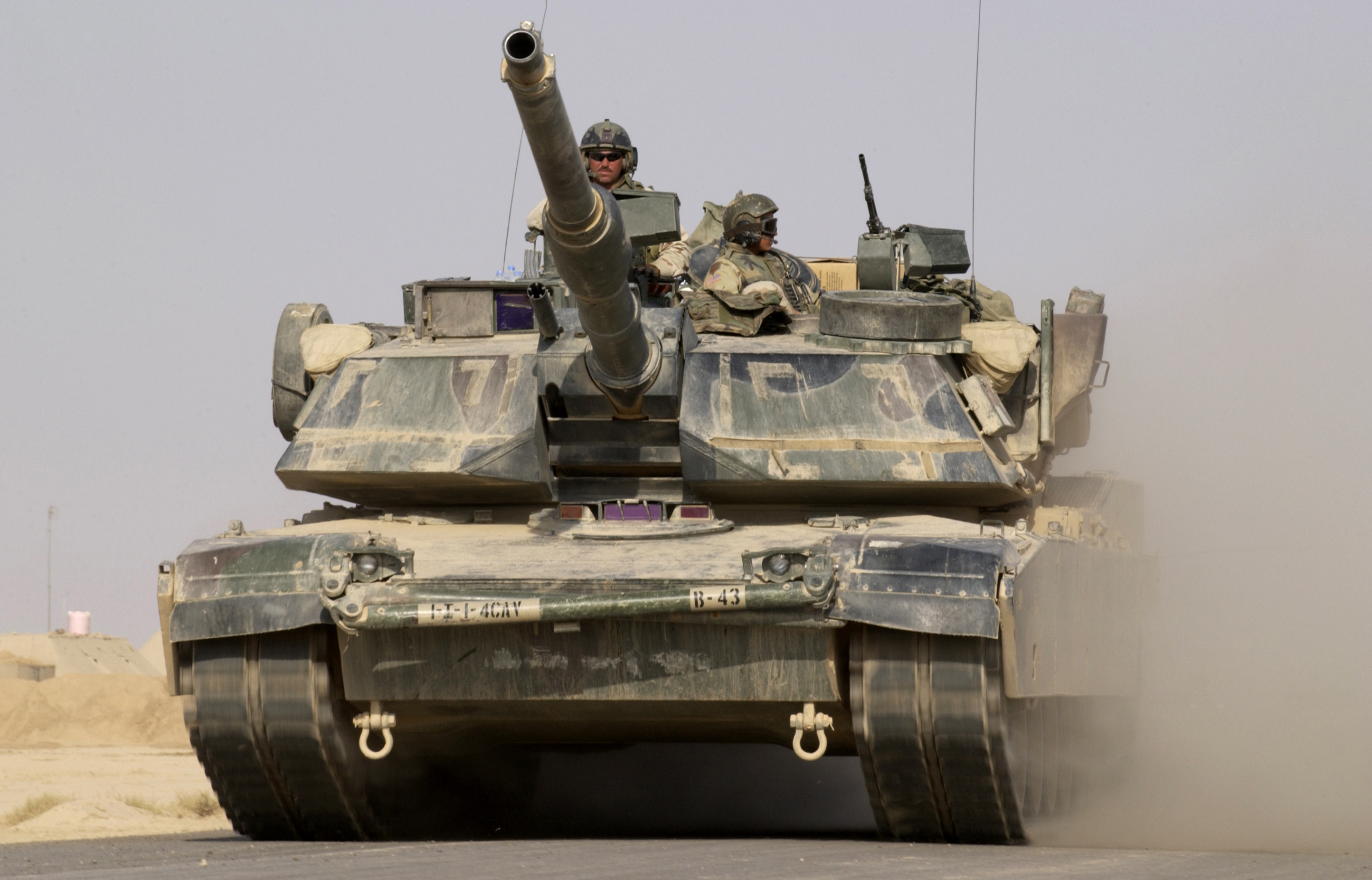 An M1A1 Abrams tank heads out on a mission from Forward Operating Base MacKenzie in Iraq on Oct. 27, 2004. The Abrams and its crew are assigned to Bravo Troop, 1st Battalion, 4th Cavalry Regiment, 1st Infantry Division.